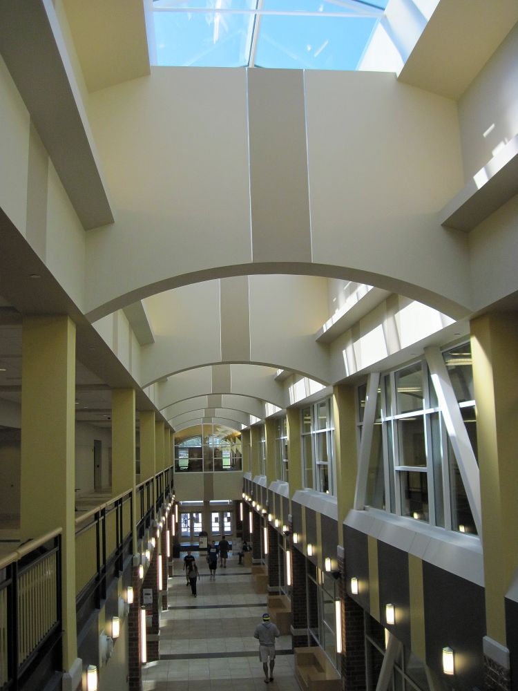 View of the main promenade inside Evans Commons.